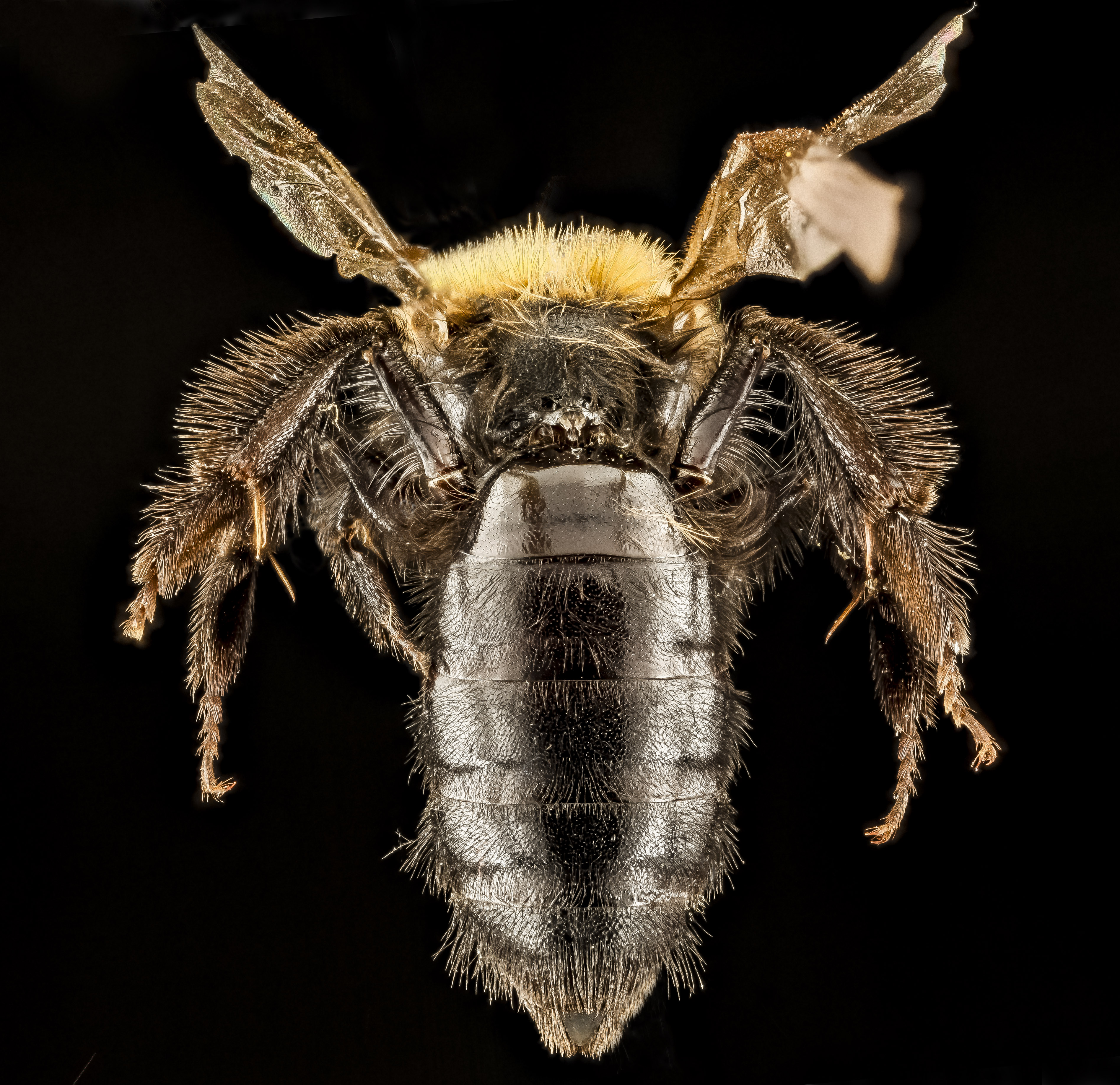 Andrena anograe, female, Badlands National Park